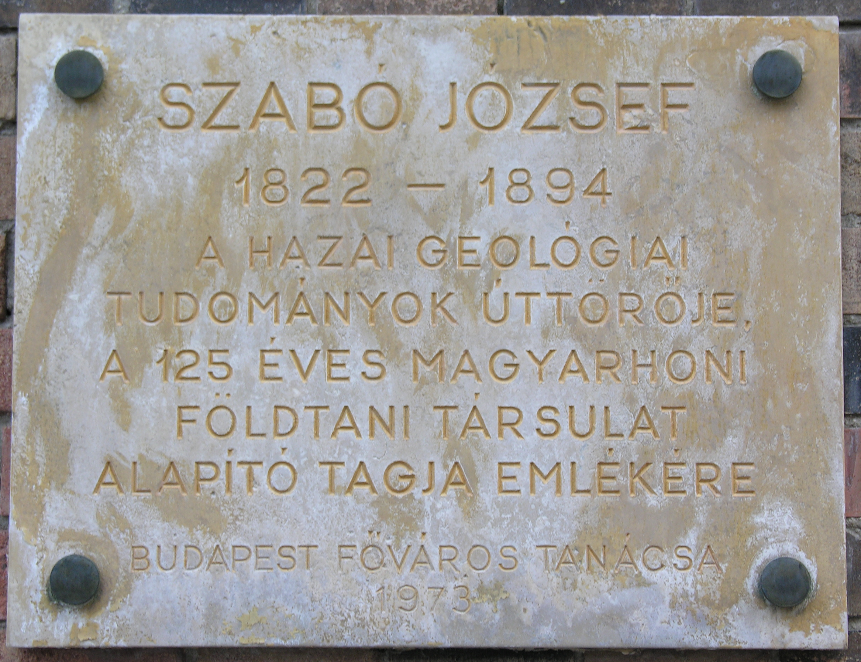 Commemorative plaque of the geologist József Szabó, Budapest District XIV, Szabó József Alley No 2